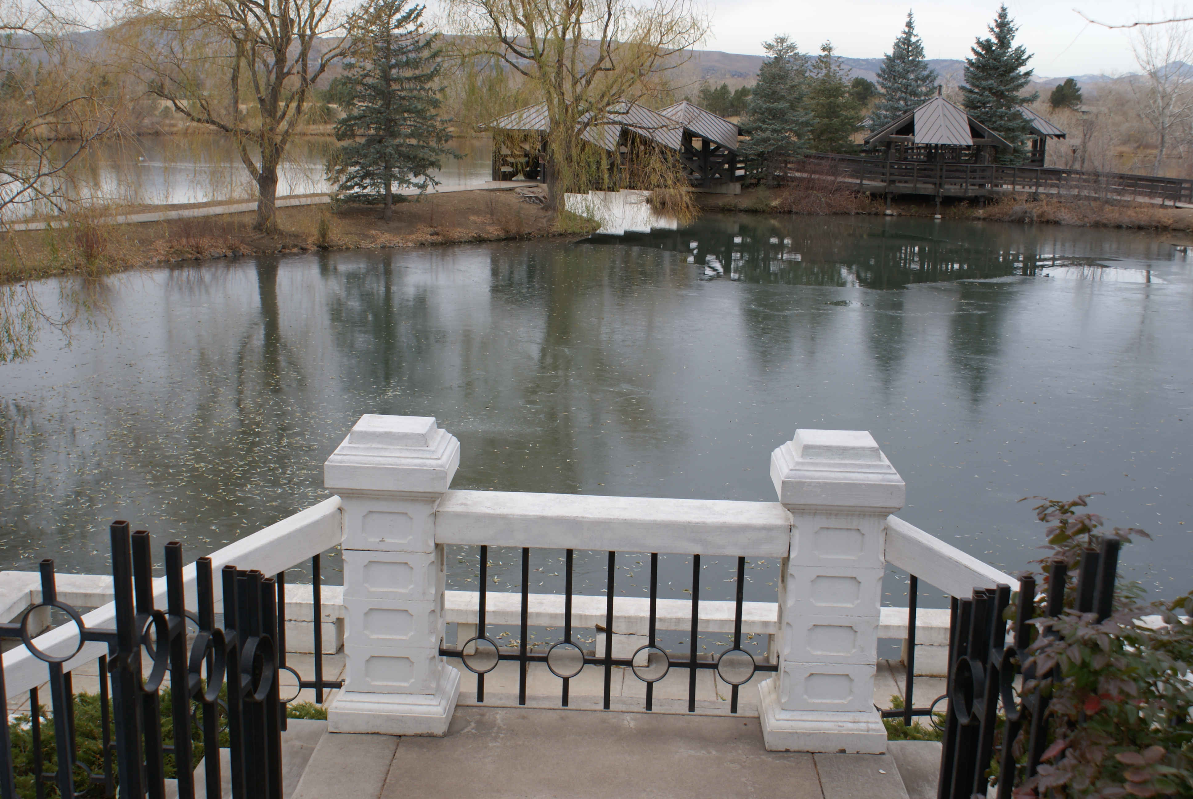 View of boating dock on Kountze Lake at Belmar Park, former estate of May Bonfils Stanton, in Lakewood, Colorado